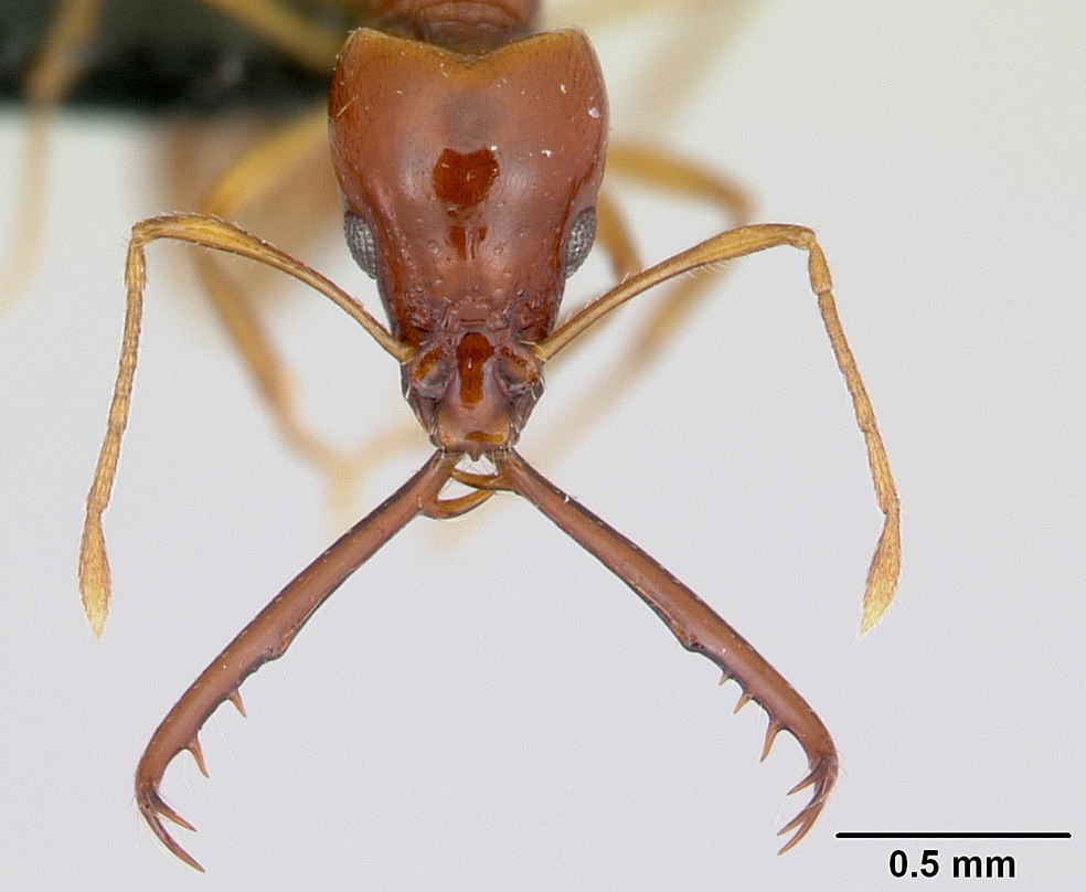 Head view of ant Acanthognathus teledectus specimen casent0039799.